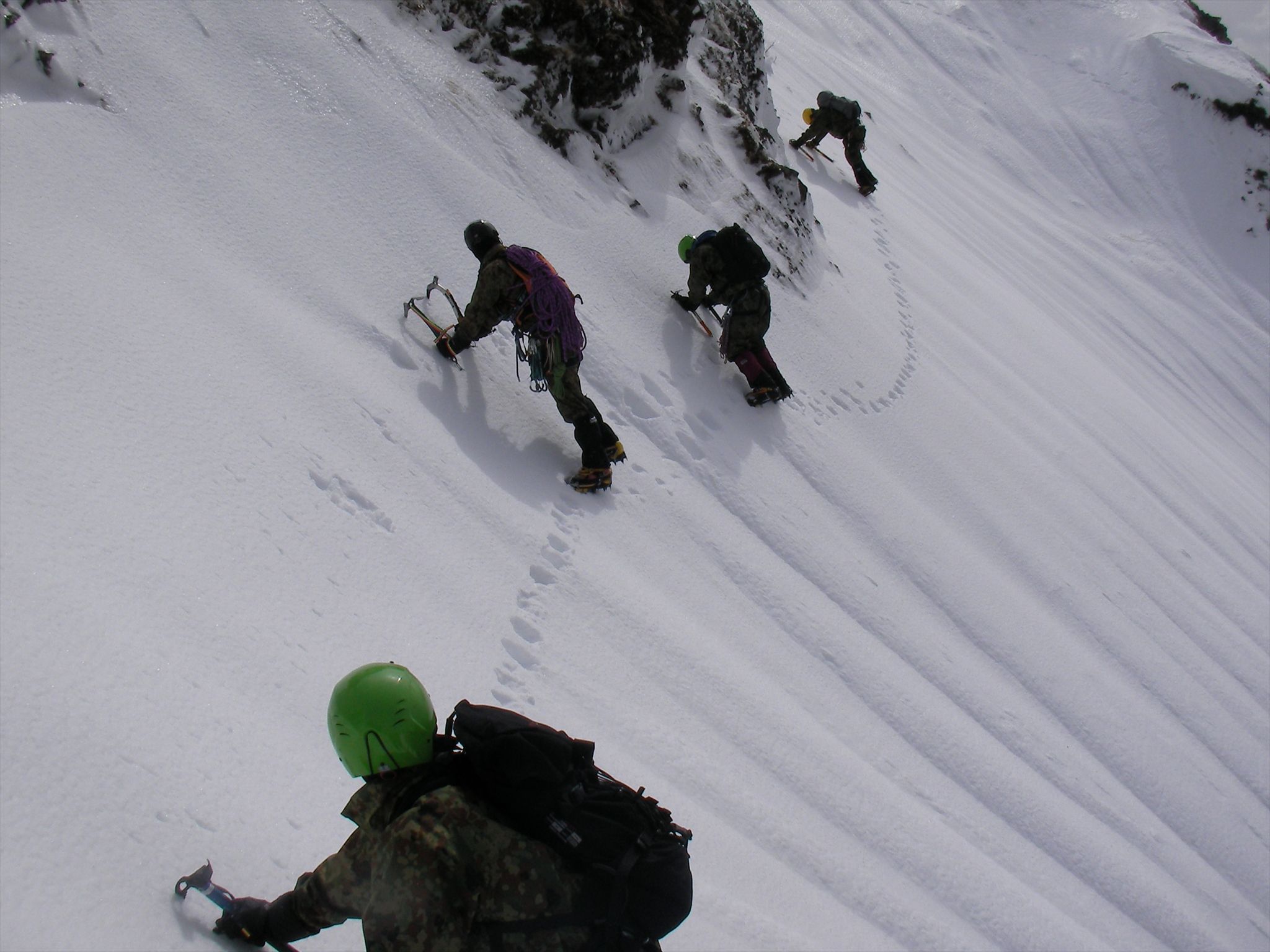 Title 13i-1 (レンジャー教育・冬季山地訓練)_R.JPG Album 教育訓練等 レンジャー教育における冬期山地訓練